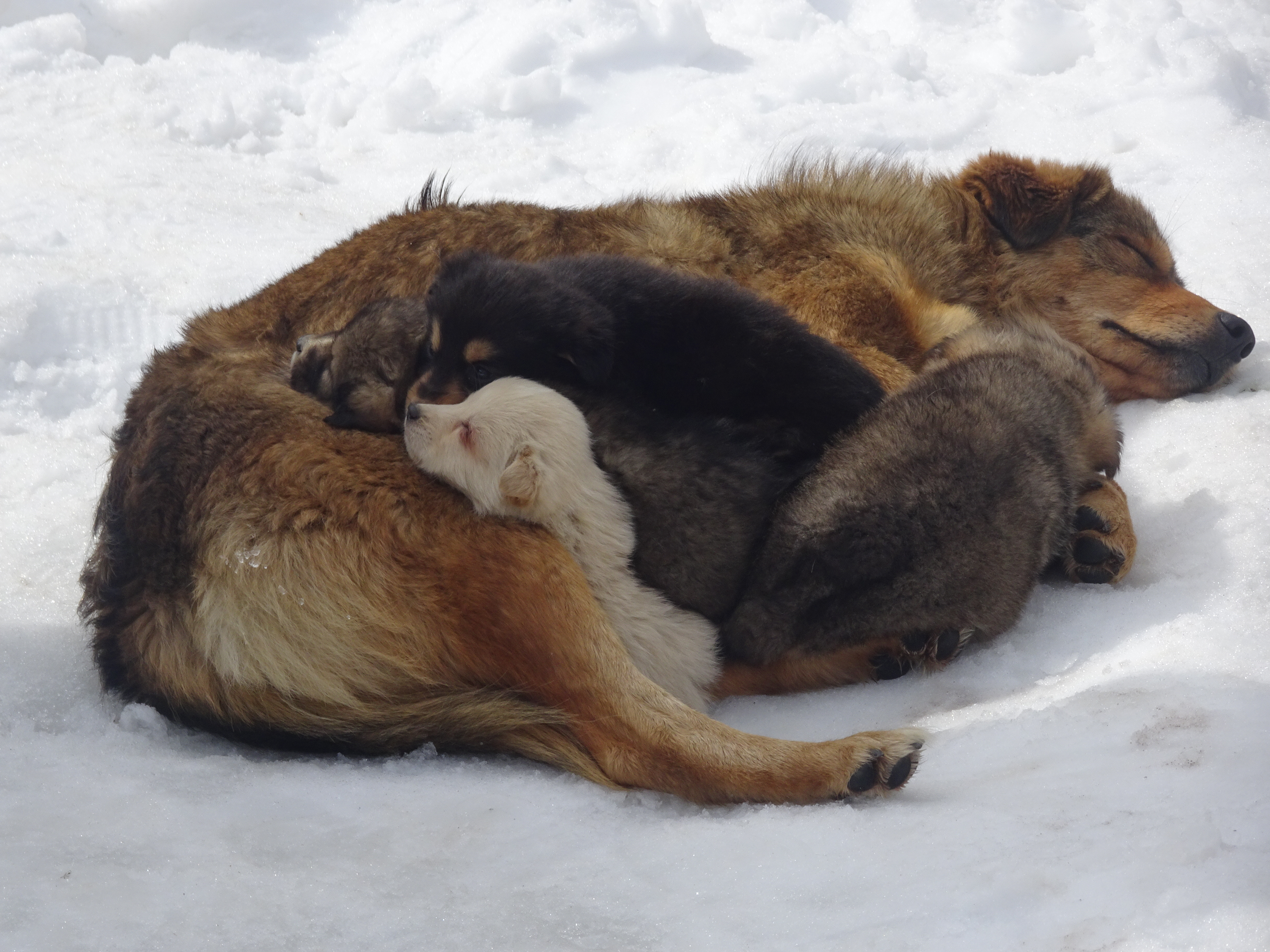 Mom dog with its puppies shot near Hadimba Temple, Himachal, India This photo has been taken in the country: India